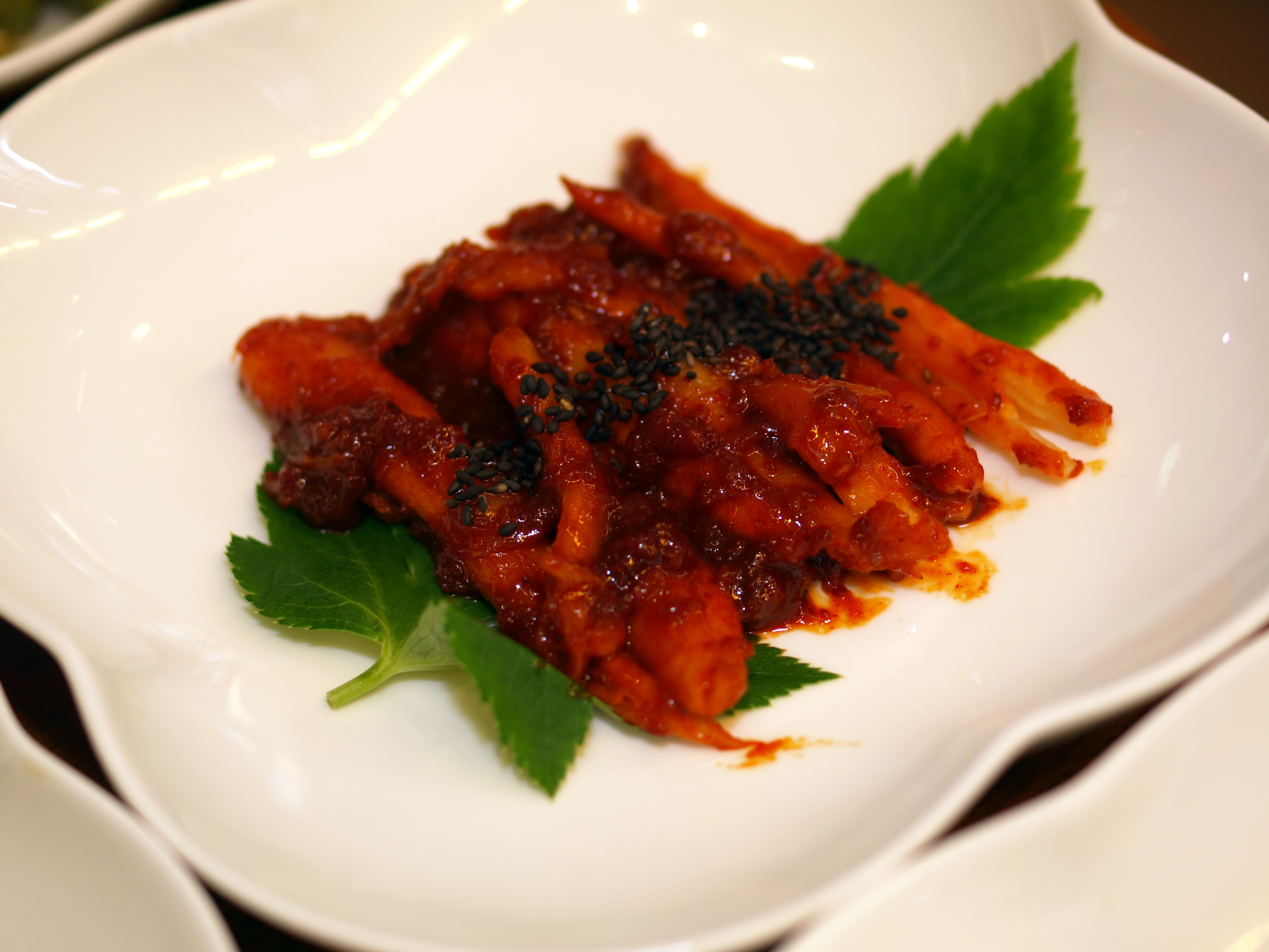 A plate of deodeok gui (더덕구이), a Korean dish made from Codonopsis lanceolata root marinated in gochujang sauce and grilled over charcoal